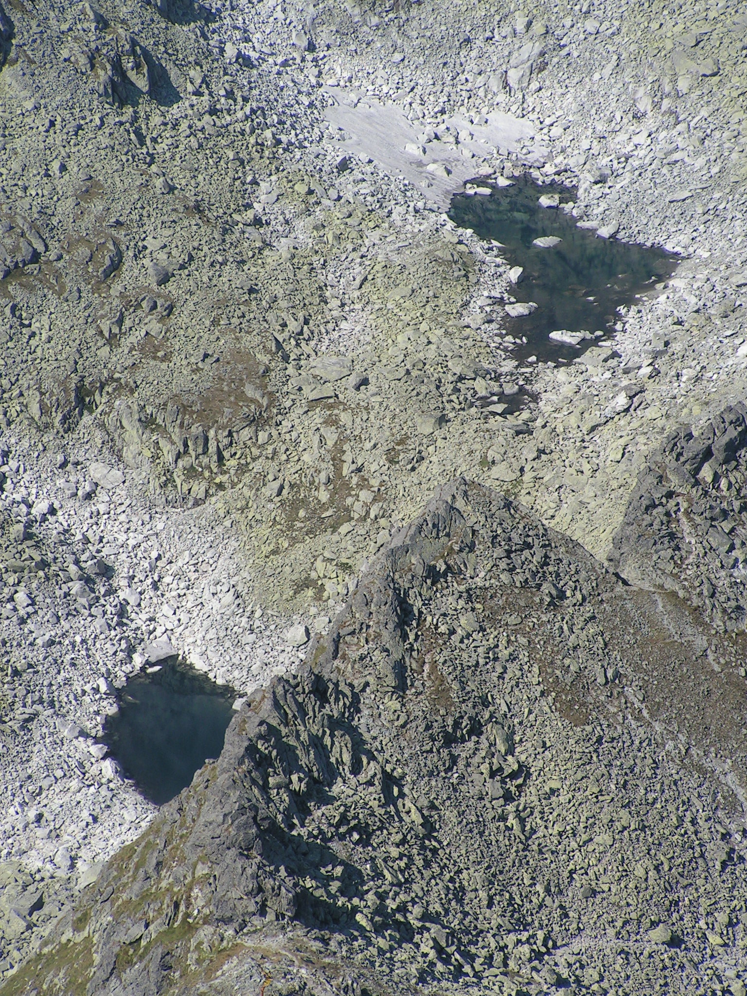 Vyšné Velické plieska